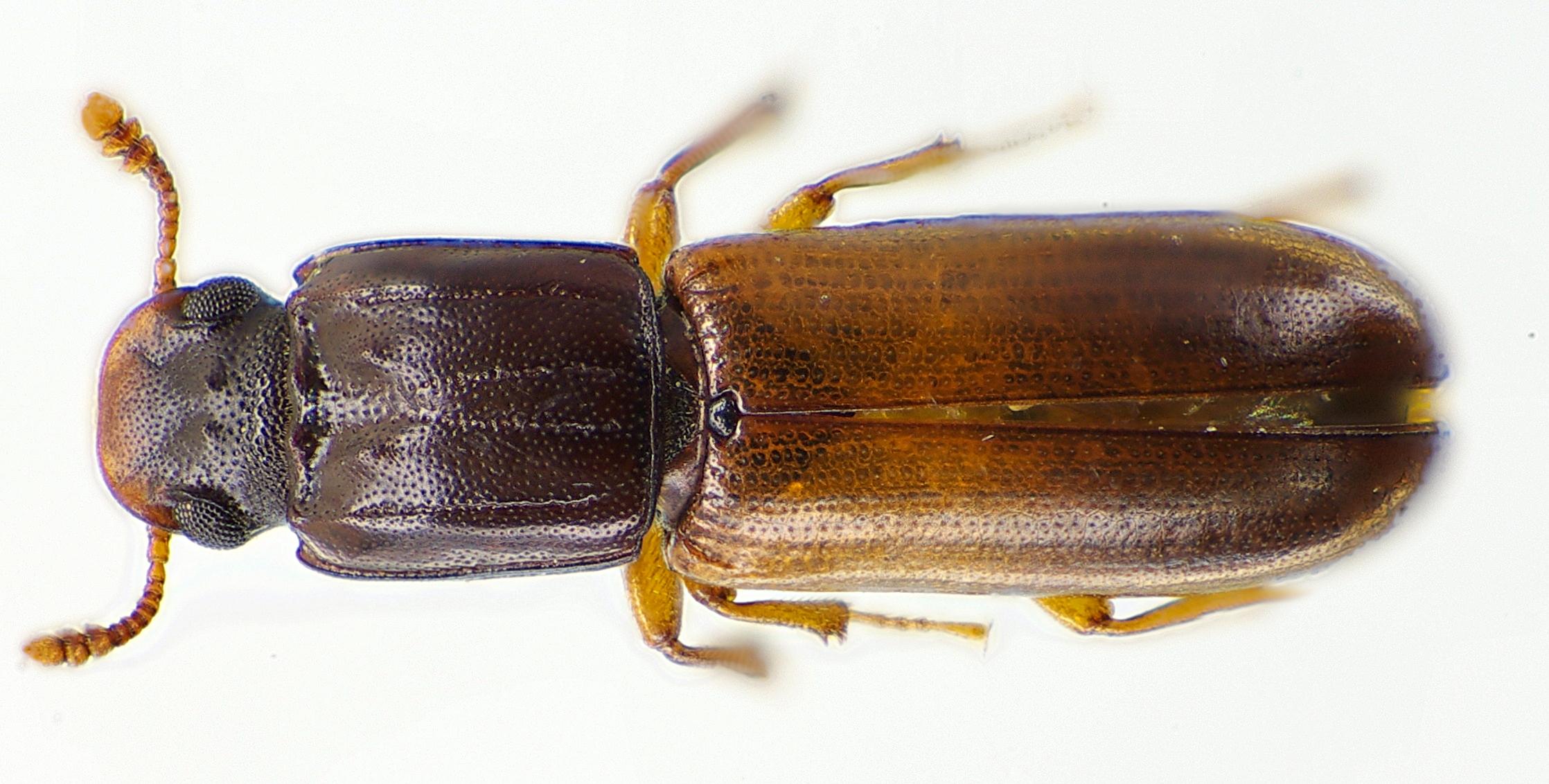 Aulonium ruficorne from Southern France in Spring